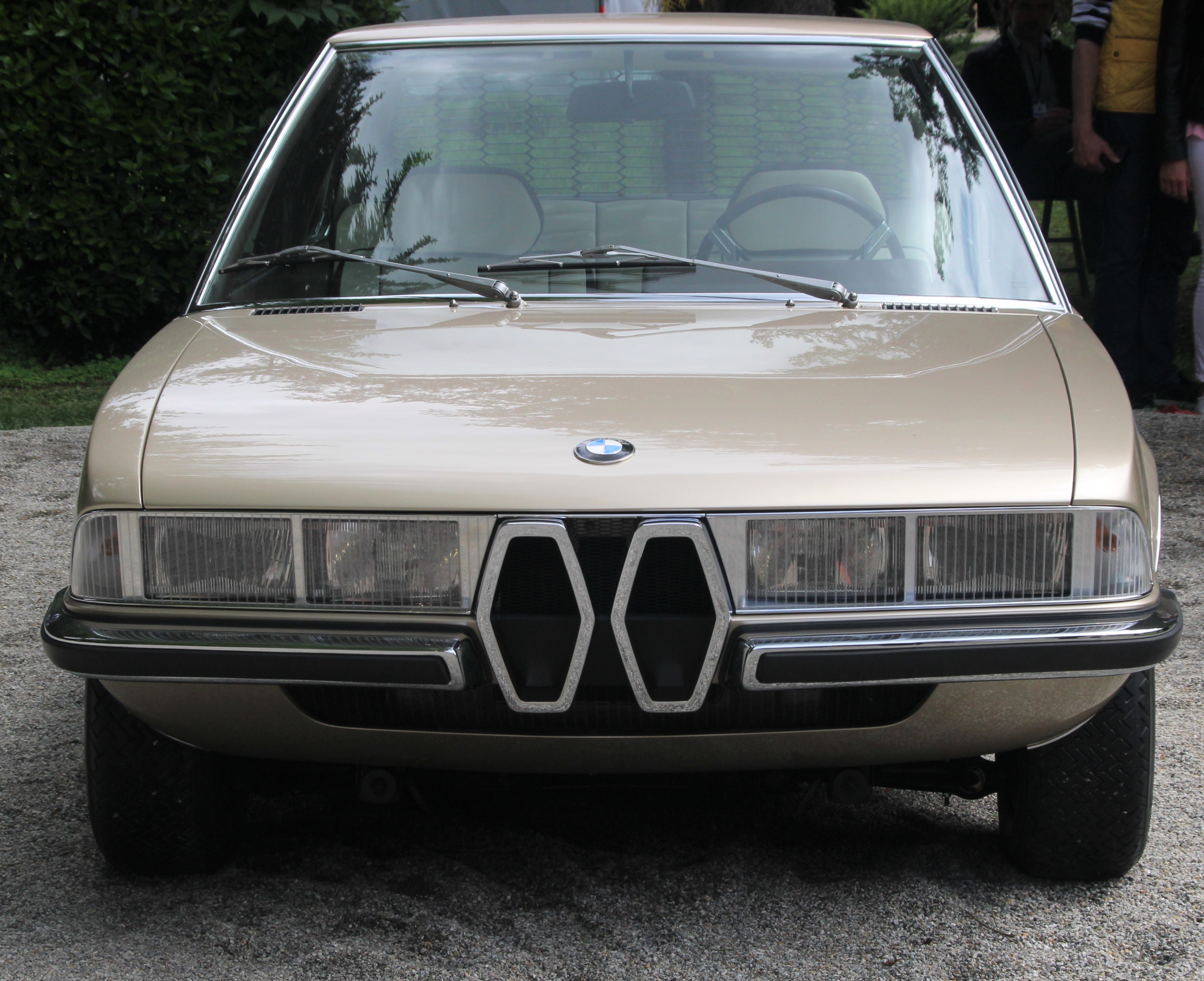 Reproduction by BMW of concept Garmisch 1970, front strict